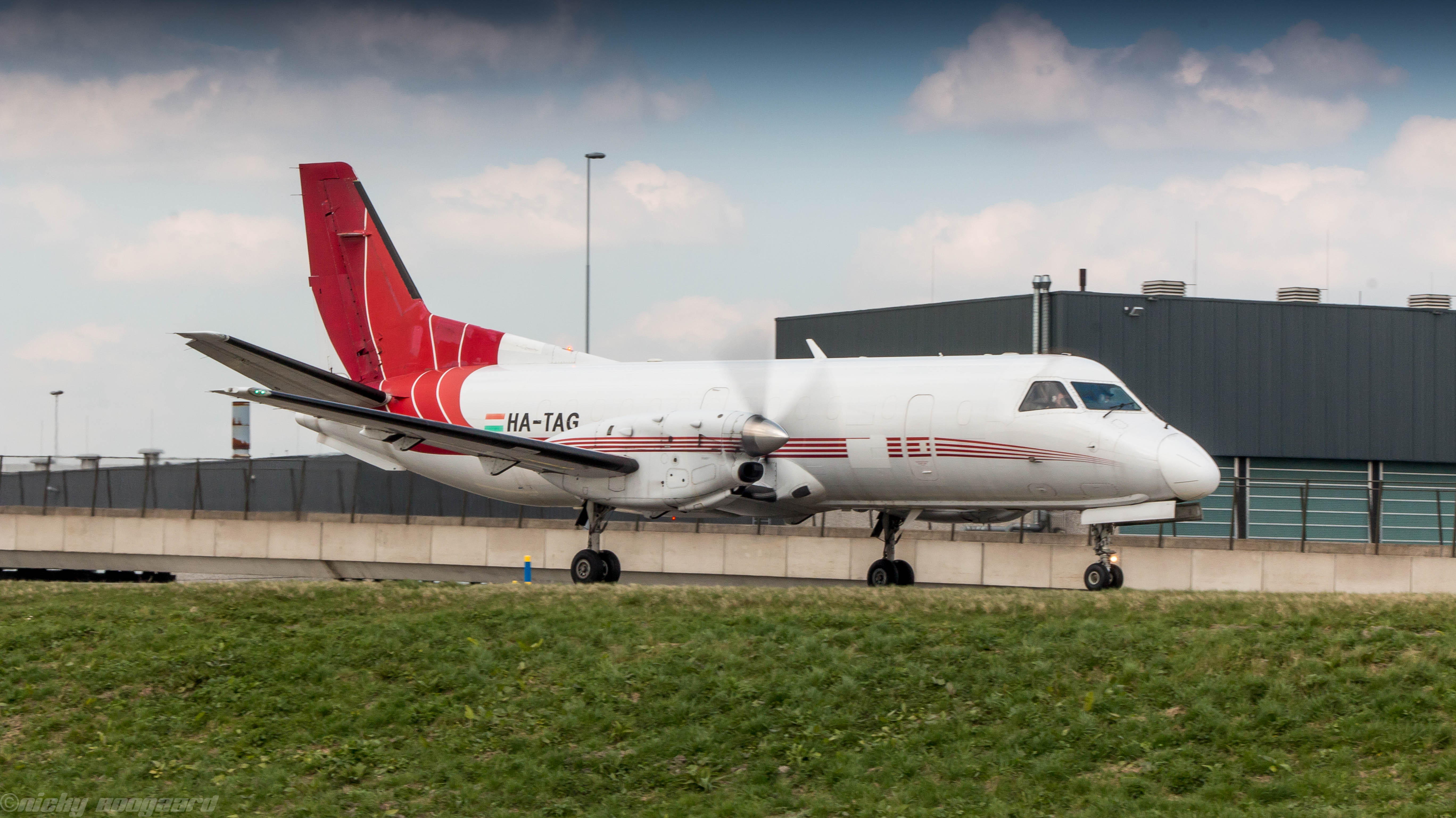 Schiphol, the Netherlands